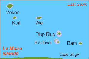 Map (rough) of Le Maire islands, Papua New Guinea, own work composed from various mapreferences